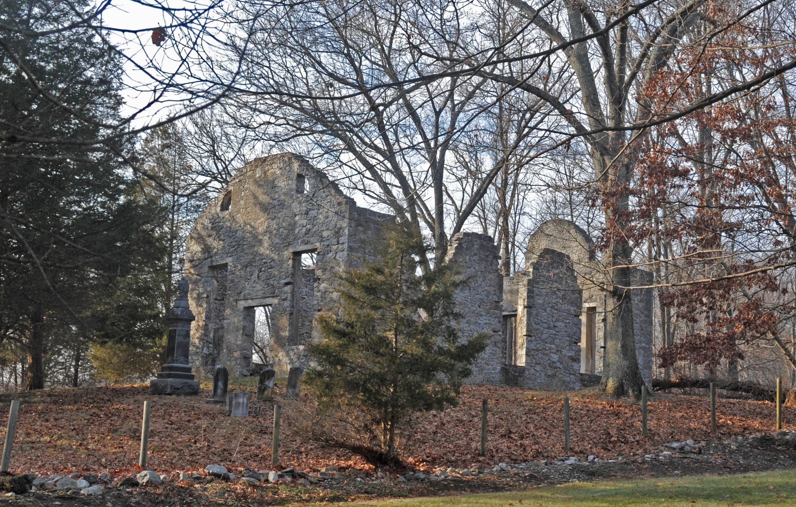 BUILT IN 1840 AND FLOURISHED AS AN UNAFILIATED CHRISTIAN DENOMINATION FOR 35 YEARS